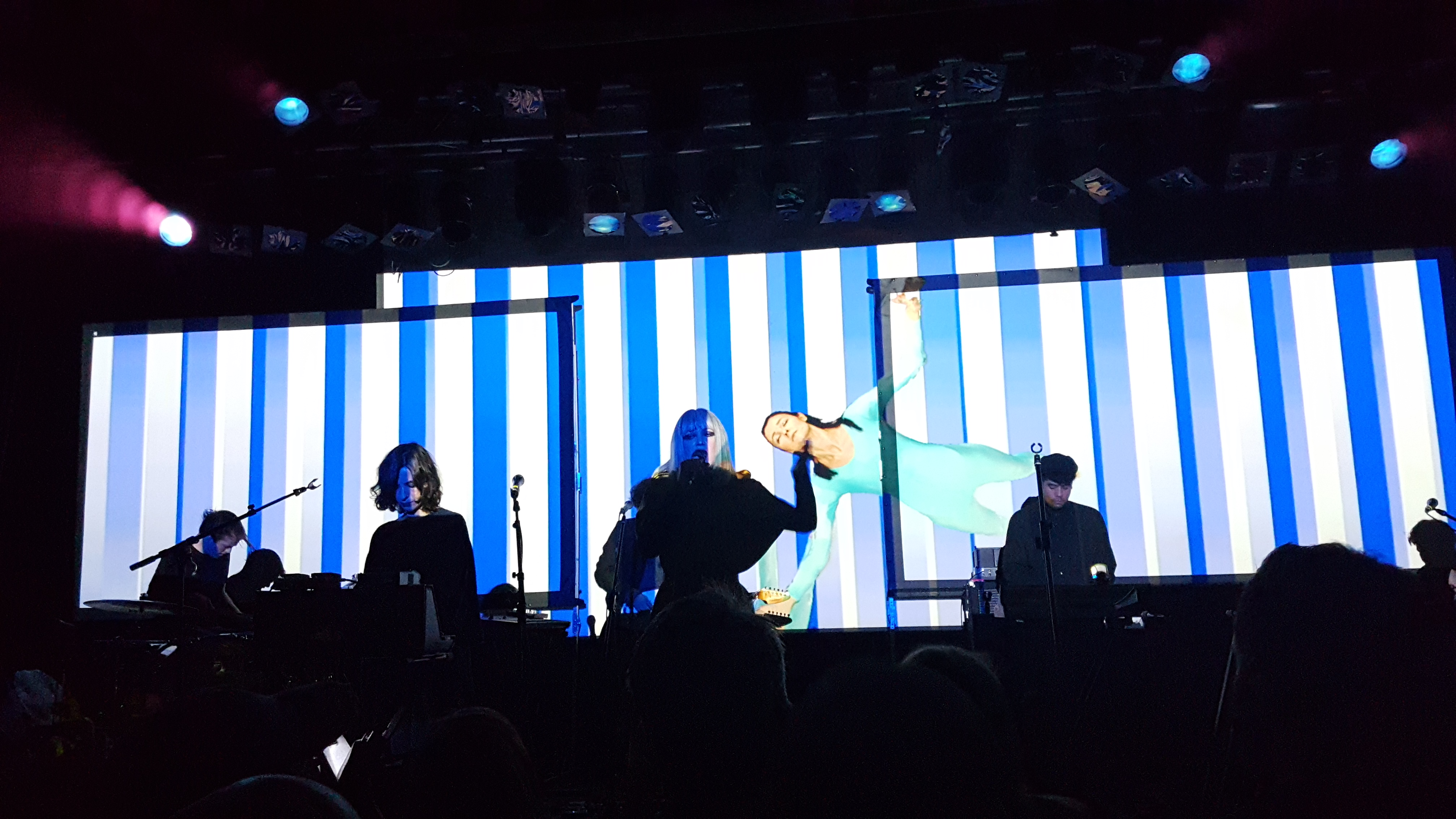 Ladytron playing at the Queen Margaret Union, University of Glasgow on 2nd November 2018. Their first gig after a seven year hiatus.